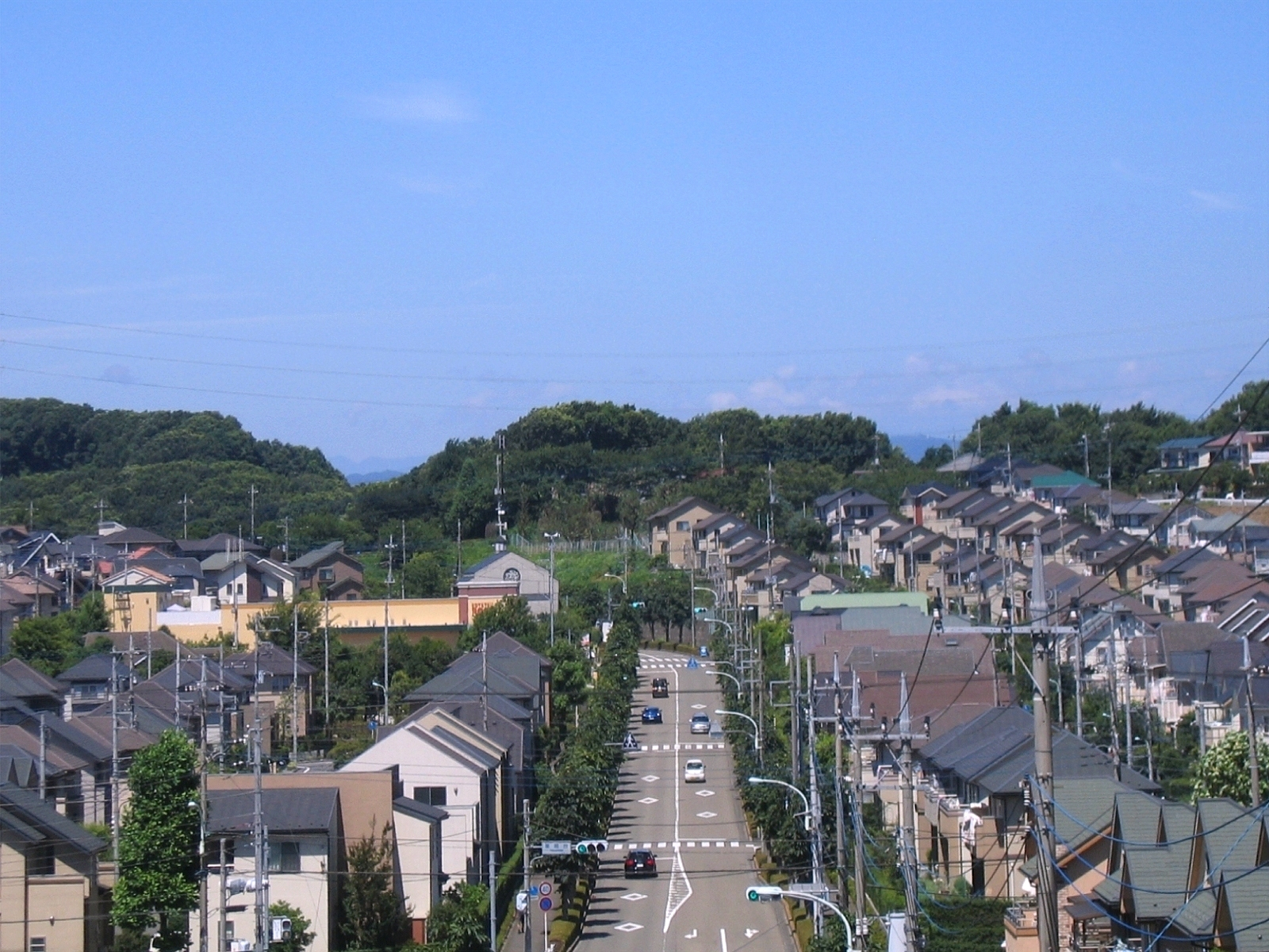 Yakushi-Kanai Steet, Yakushidai, Machida, Tokyo, Japan (seen from Harunazaka Pedestrian Bridge)